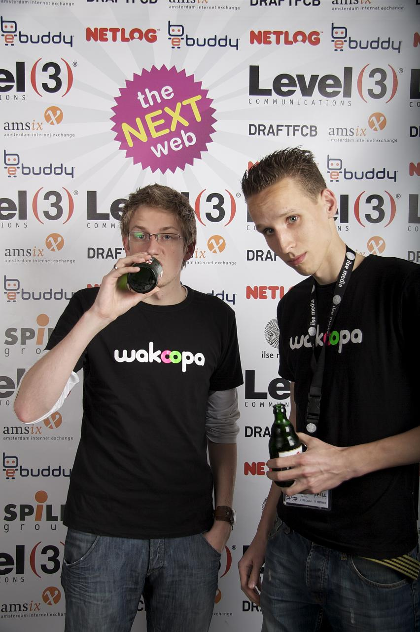 Visitors of the next web